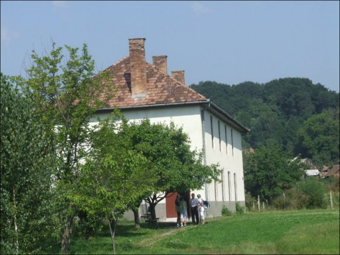 School